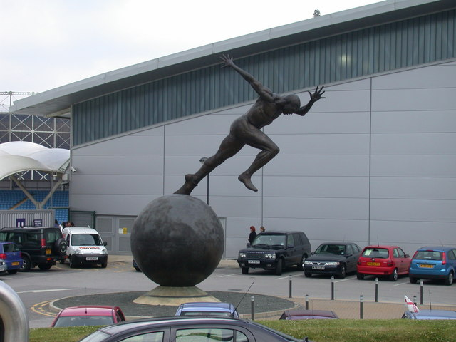 Stop the world, I want to get off! "The Runner", sculpture by Colin Spofforth (2002).